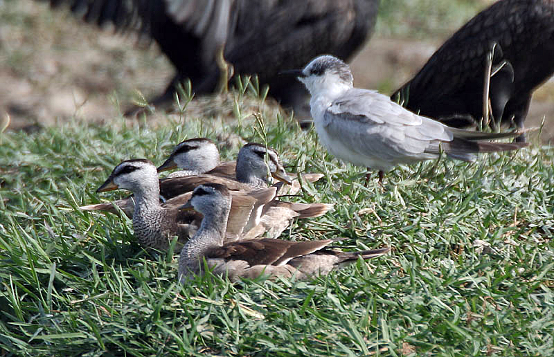 A Whiskered Tern (right) & four female Cotton Pygmy Geese at Hodal in Faridabad District of Haryana, India.